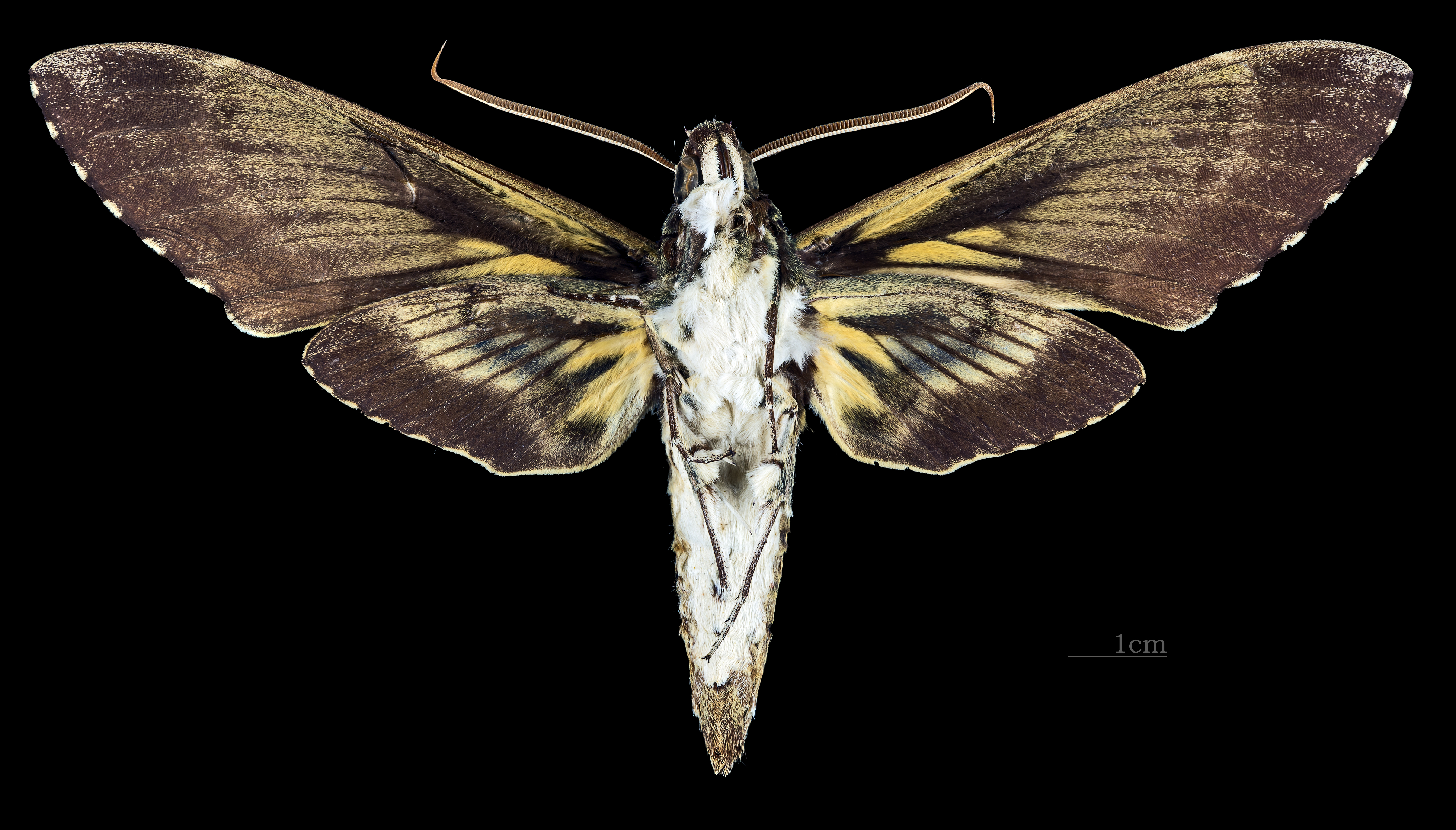 Amphonyx lucifer - △ Ventral side Collection of the Mathematician Laurent Schwartz